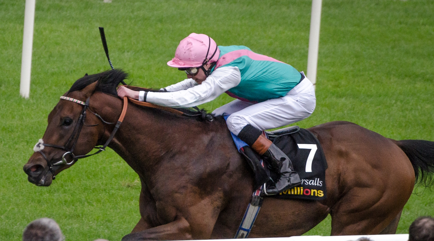 Kingman - easy winner of Irish 2.000 Guineas at the Curragh. Odds-On favourite with huge reputation, he was a shade unlucky in the British equivalent but never had to look back on Saturday, 24th of May 2014.